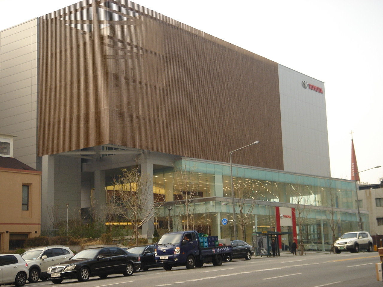 Toyota showroom in South Korea.